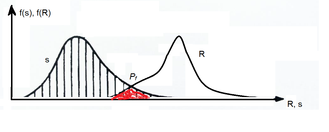 Illustration of the distribution of loads and resistance for the concept of structural reliability.